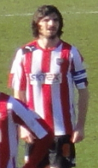 Jonathan Douglas of Brentford FC during a match versus Chelsea FC in January 2013.